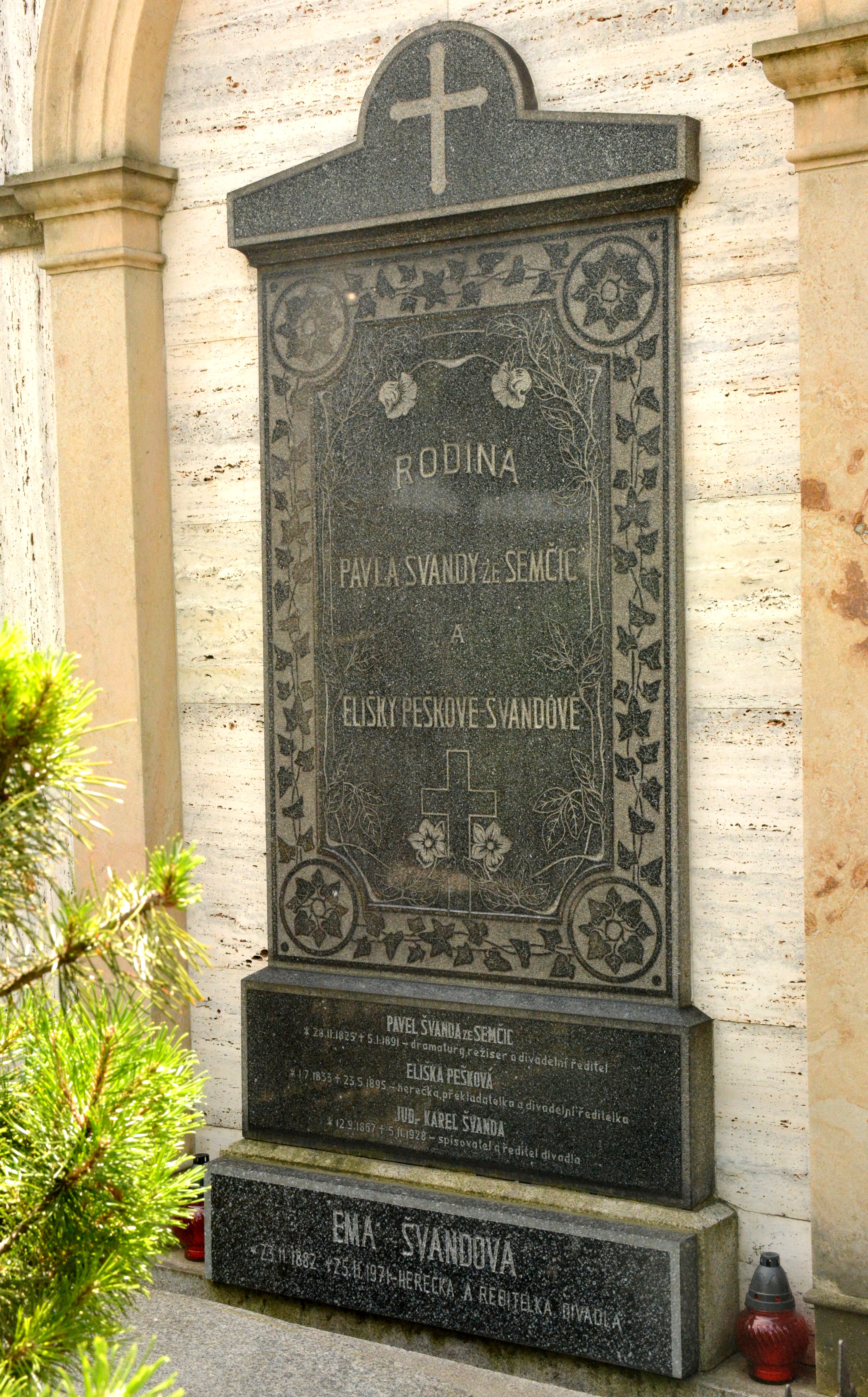 Family tomb of Pavel Švanda ze Semčic (Vyšehrad Cemetery in Prague)